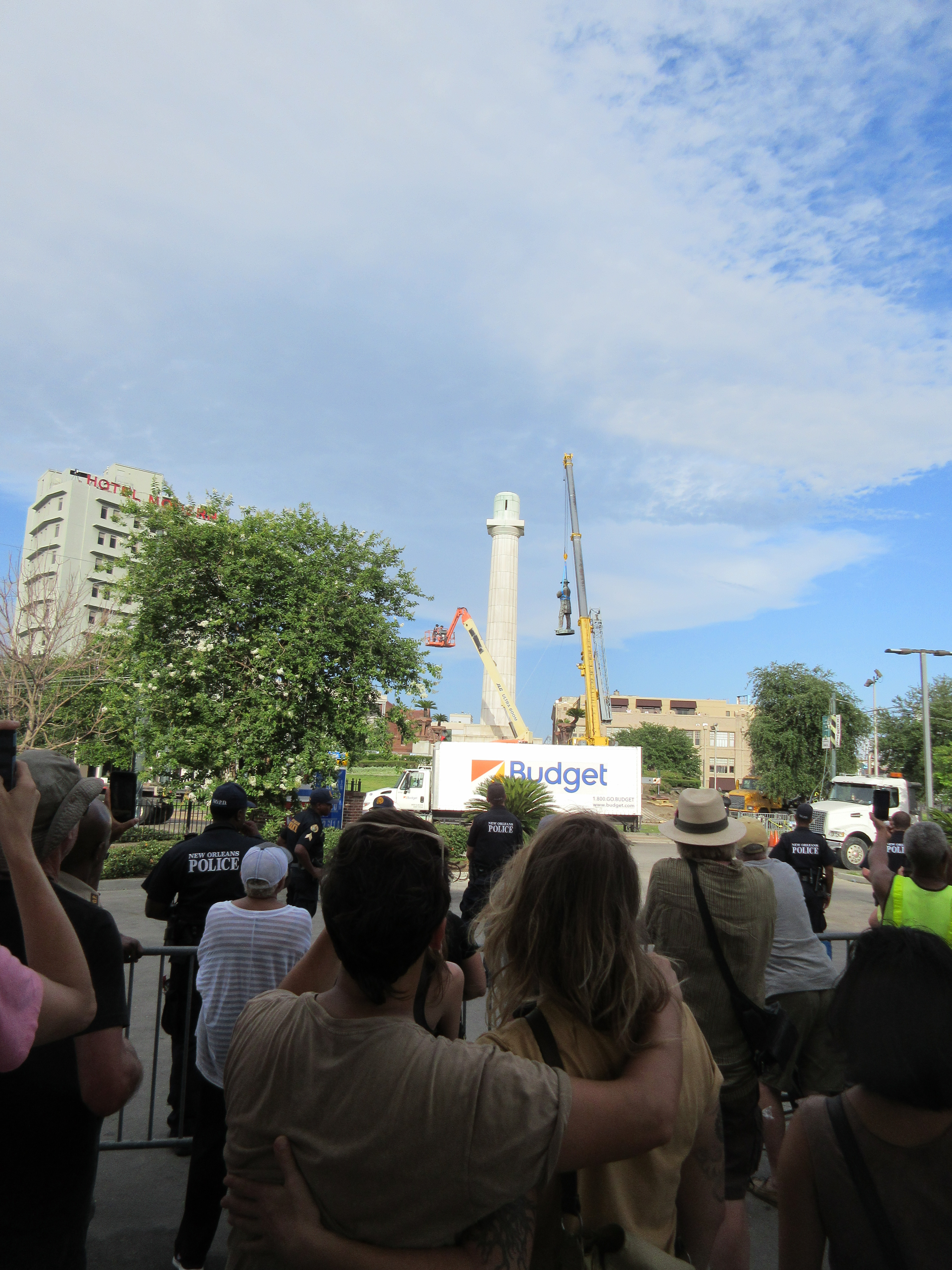 Robert E Lee statue at Lee Circle New Orleans being removed from atop the column. Watched from Howard Avenue side. The crowd watching had a block party festive atmosphere. I was told there was a small group of neo-Confederates on the other side of the circle protesting the removal. Photo by Infrogmation of New Orleans, 19 May 2017. Free reuse with author attribution in accordance with any of the licenses listed by the author/photographer. Reuse without photo attribution is a violation of copyright.